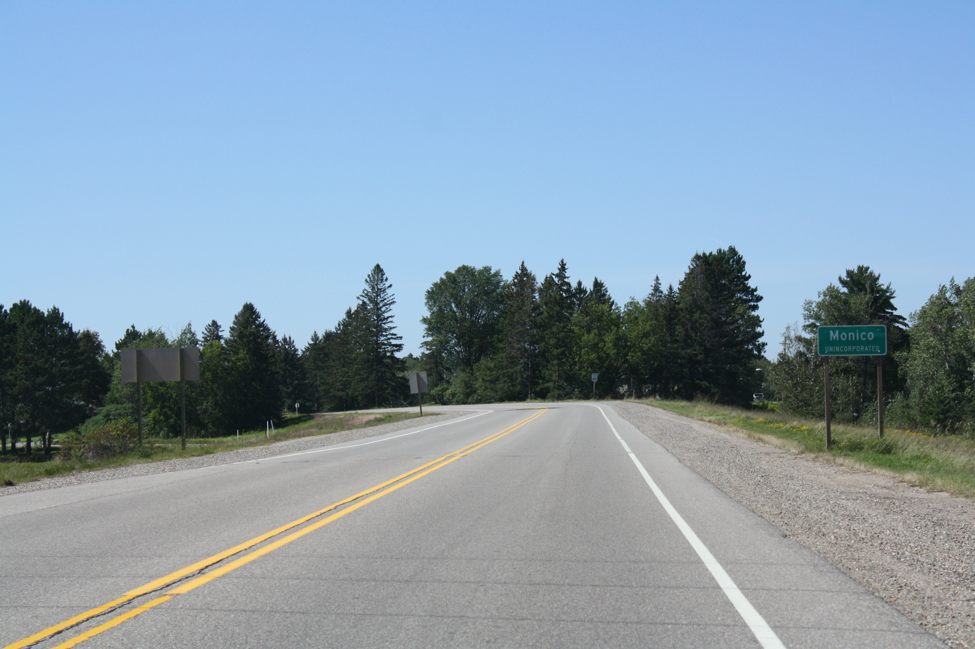 Looking west at the sign for Monico, Wisconsin on U.S. Route 45 / U.S. Route 8.